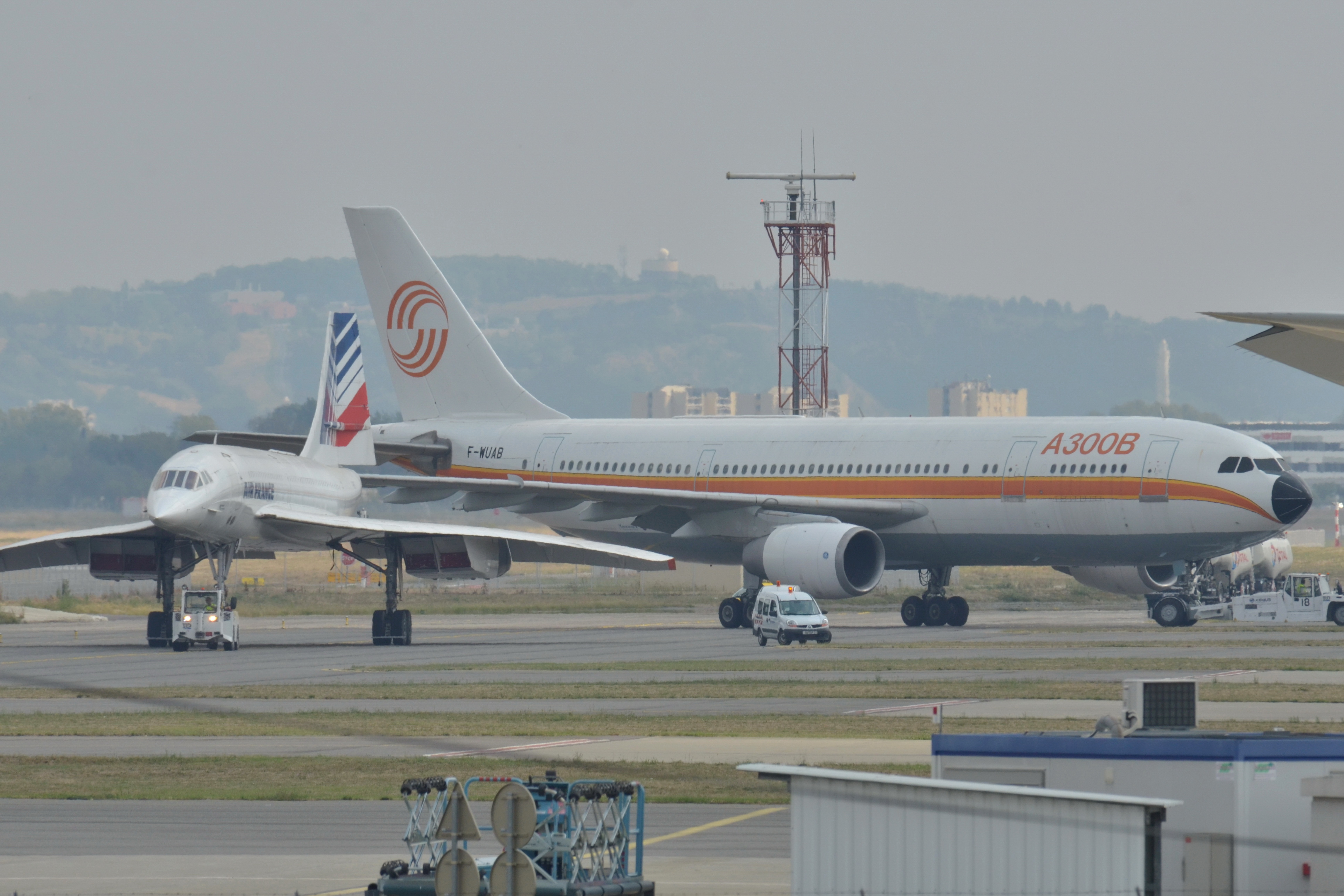 Prototype Airbus A300B and Concorde in Air France livery at Toulouse-Blagnac Airport (LFBO)